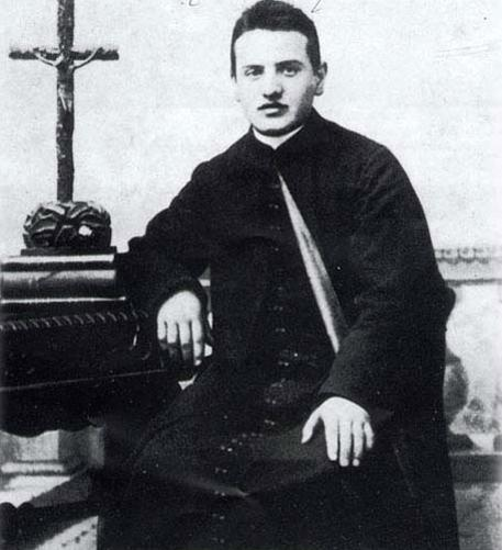 Pope John XXIII as a youth.